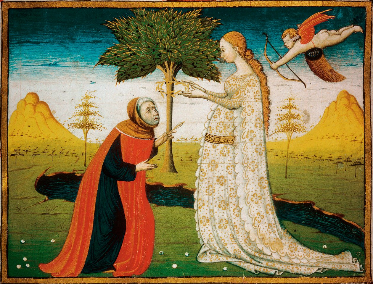 Petrarch and Laura